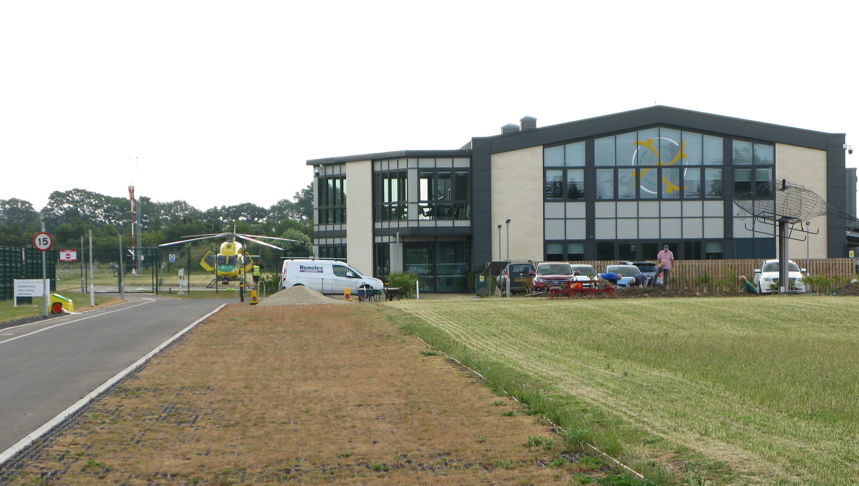 Wiltshire Air Ambulance headquarters